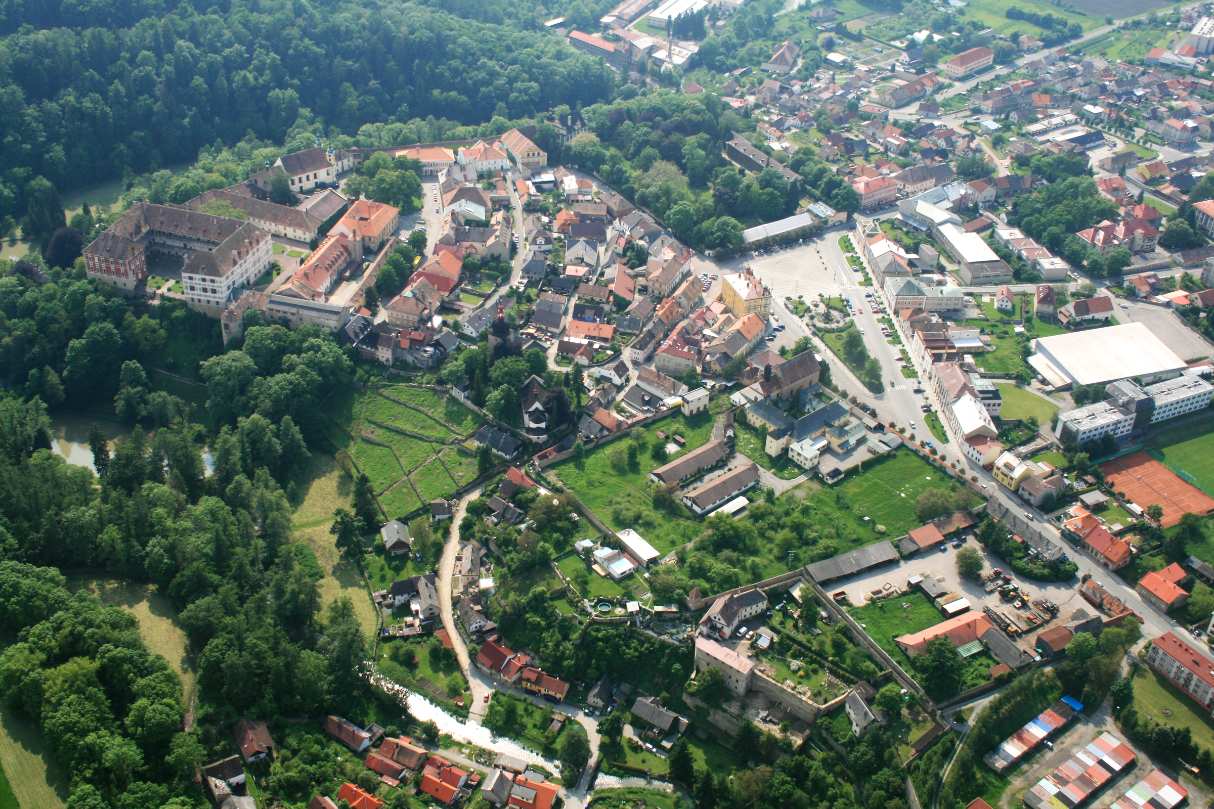 Opočno castle and Opočno town from air, eastern Bohemia, Czech Republic